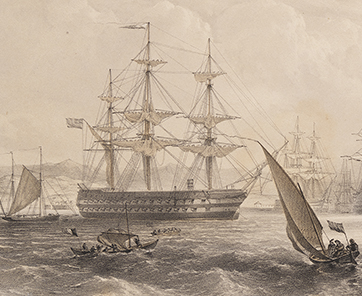 Title: H.M.S. Royal Albert 131 Guns. Creator: Brierly, Oswald Walters, Sir, 1817-1894 (delineator); Dutton, T. G. (Thomas Goldsworthy), 1819-1891 (lithographer) Date: February 25, 1856 Part of: beautiful scenery and chief places of interest throughout the Crimea from paintings/ Series: Marine & Coast Sketches of the Black Sea/ Place: Sevastopol, Crimea; Black Sea Description: Full title with caption: H.M.S. Royal Albert 131 Guns. Flag Ship of Admiral Sir Edm Lyons, Bart. With the English and French Fleets off Sebastopol. Physical Description: 1 print: lithograph, color, part of 1 volume (65 prints); 26 x 39 cm on 40 x 56 cm File: February 25, 1856 Rights: Please cite DeGolyer Library, Southern Methodist University when using this file. A high-resolution version of this file may be obtained for a fee. For details see the web page. For other information, . For more information and to view the image in high resolution, View the